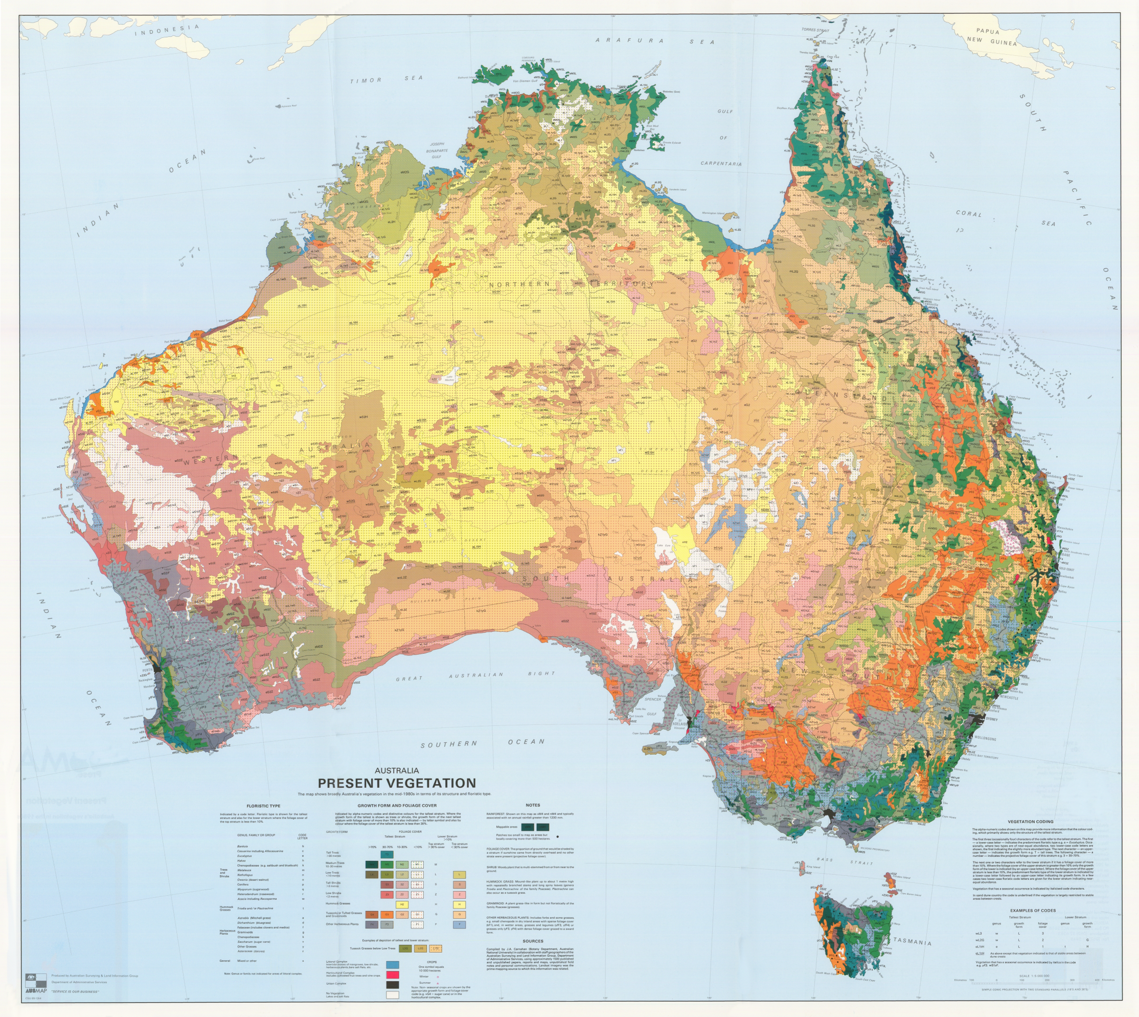 "Vegetation: Map - Present vegetation" from "Volume 6: Atlas of Australian Resources Third Series - Vegetation". Catalogue Number : 60925. "Unless otherwise noted, all Geoscience Australia material on this website is licensed under the Creative Commons Attribution 3.0 Australia Licence."